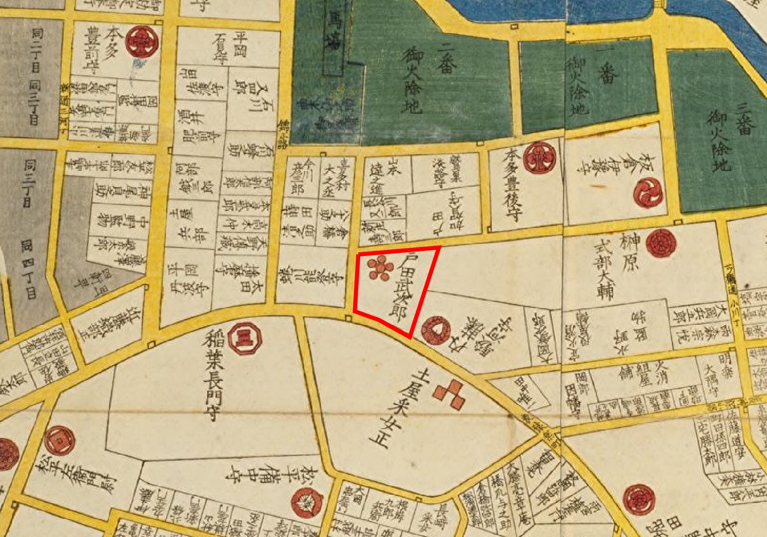 Residence Toda Clan at Edo Surugadai